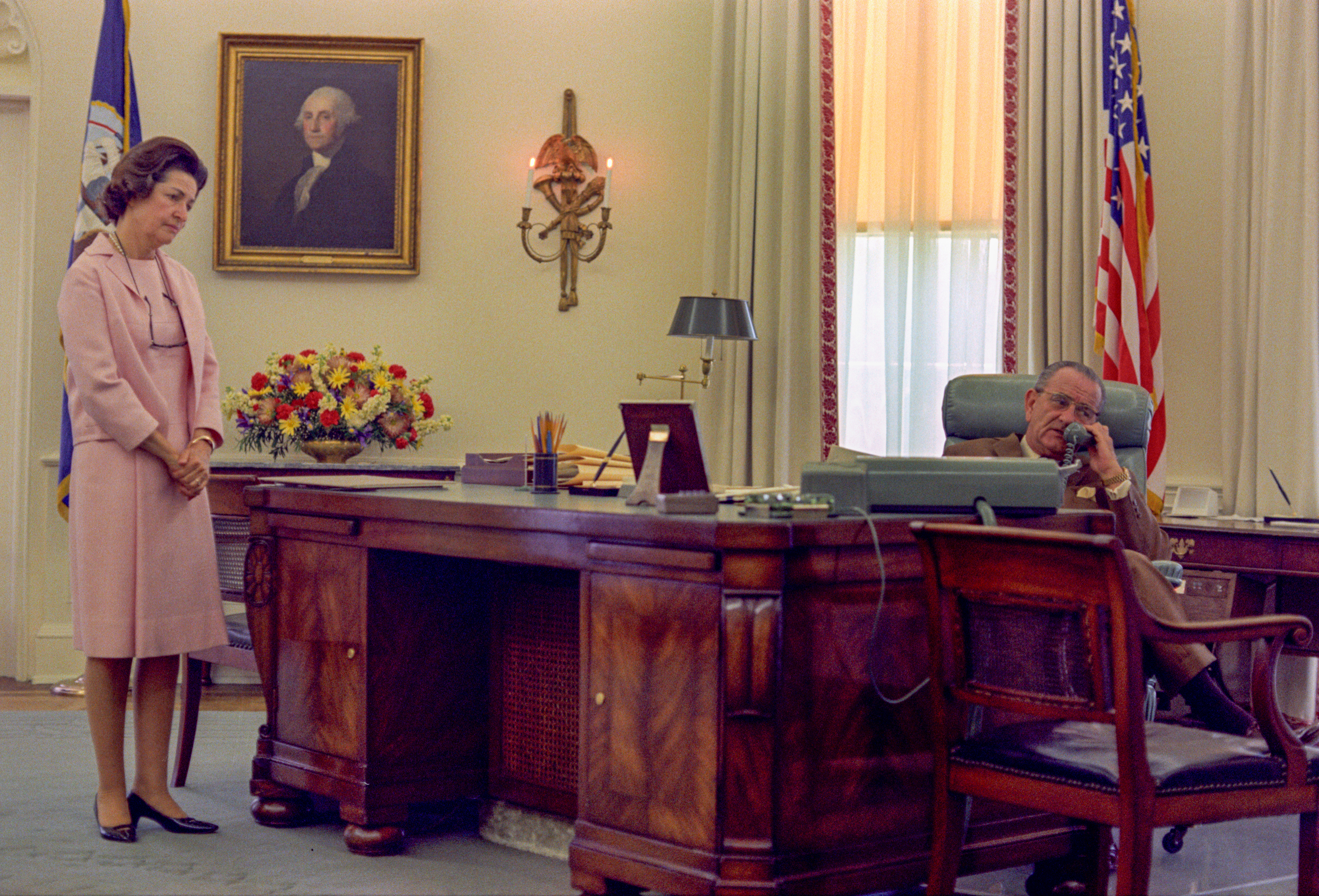 President Lyndon B. Johnson learns in the Oval Office upon the death of Robert F. Kennedy on the telephone as Lady Bird Johnson looks on.